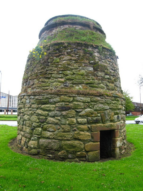 Northfield House Doocot, Prestonpans. 16th century beehive-shaped dovecot with a flattish domed roof covered.It contains approximately 600 stone nests and is still in use. It had been in a bad state of repair but was restored by the National Trust for Scotland.